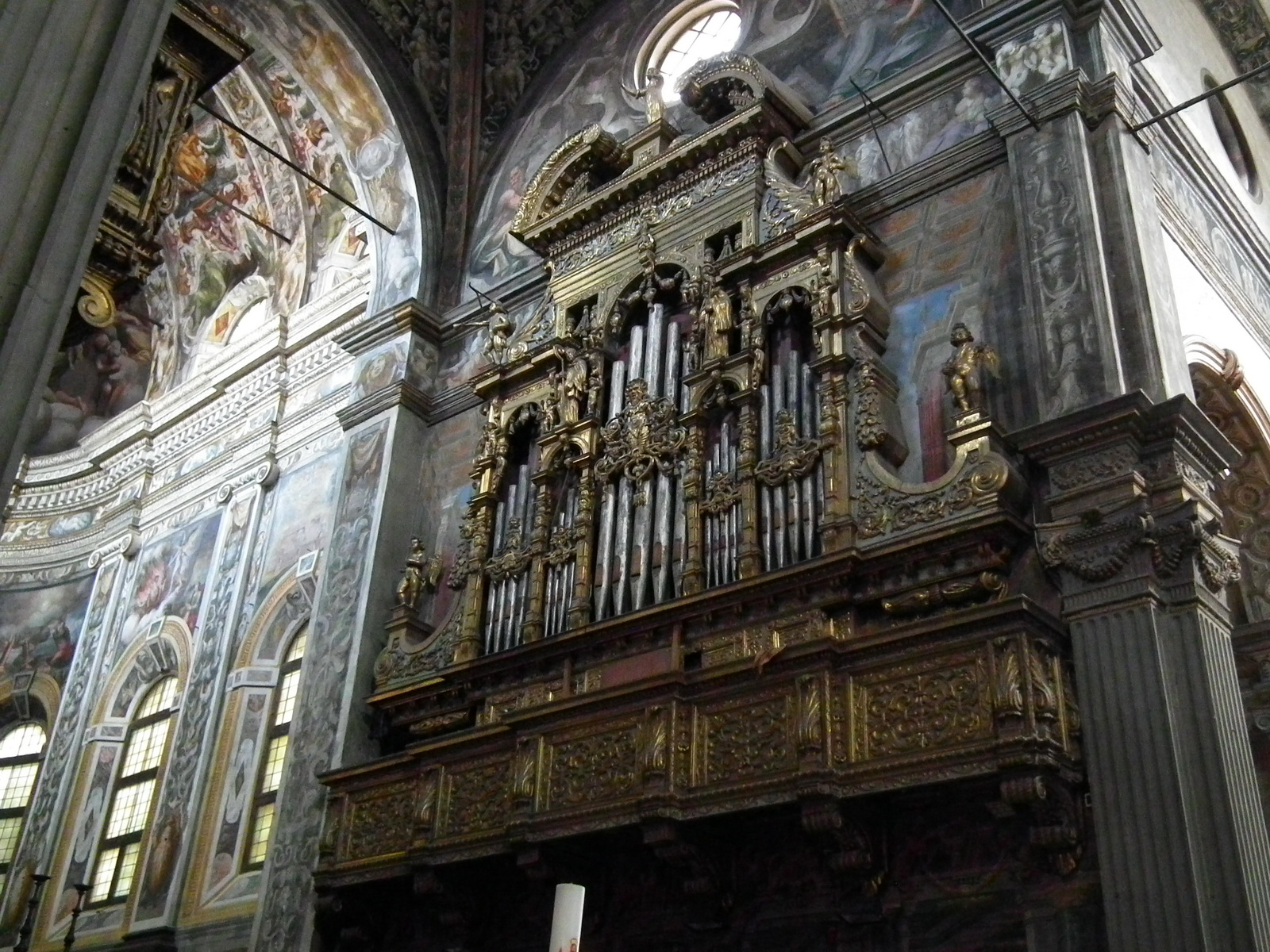 Church of Saint John the Evangelist Native nameAbbazia di San Giovanni EvangelistaLocationParma, ItalyCoordinates44° 48′ 10″ N, 10° 19′ 57″ E Authority control : Q3603222